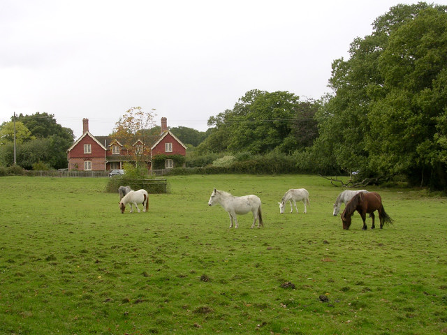 Stock's Cross, Bramshaw, New Forest. These ponies are grazing on a triangle of National Trust-owned land at Stock's Cross. The village of Bramshaw is stretched out for several miles along the B3079 road, with the church to the north, the hamlet of Brook to the south and Stock's Cross at its centre.